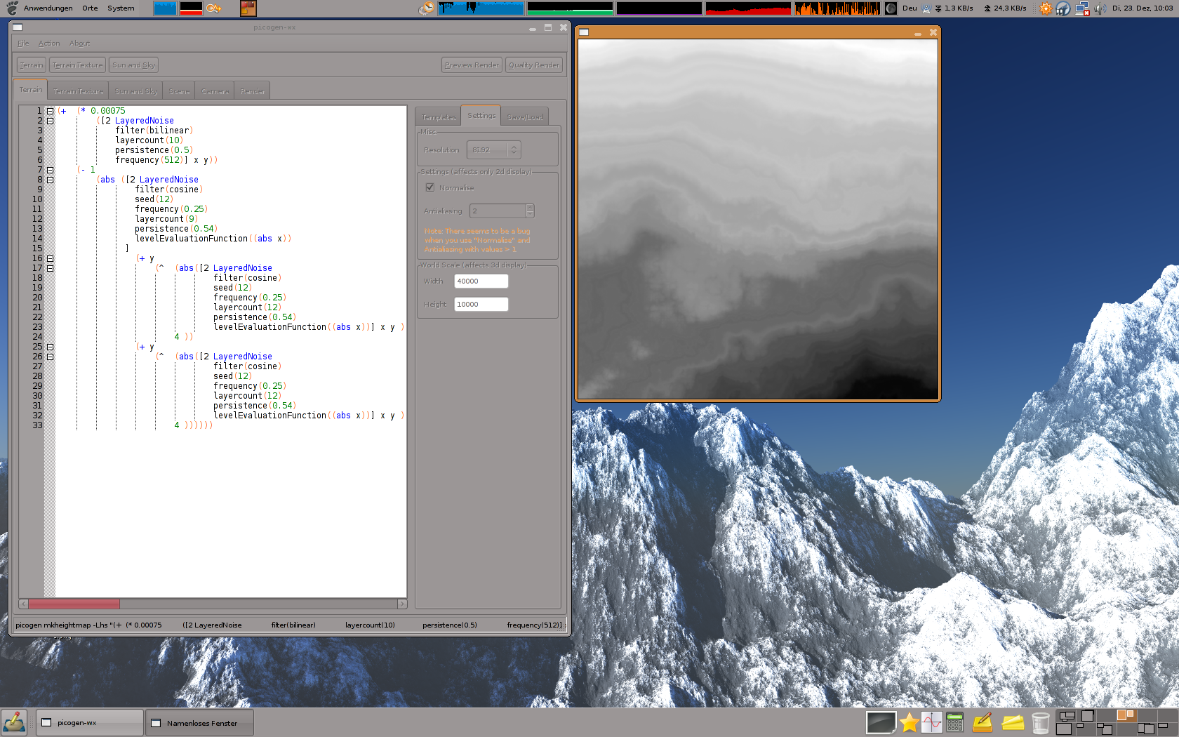 A sample session of picogen-wx, showing the heightmap editor (heightmaps in picogen are based on small, lisp-like programs).